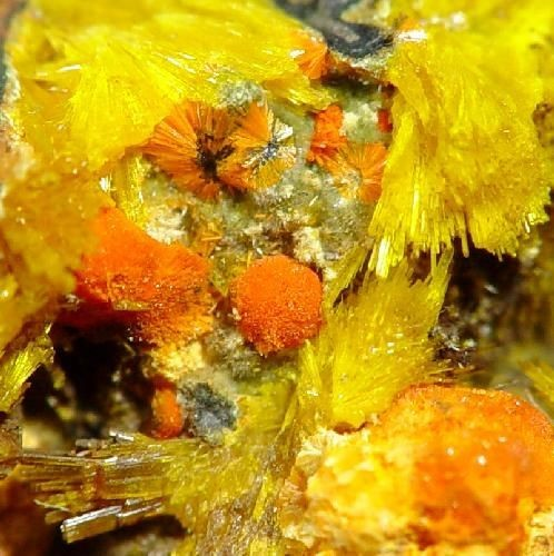 Becquerelite, Masuyite, Fourmarierite, Uranophane - alpha Locality: Shinkolobwe Mine (Kasolo Mine), Shinkolobwe, Central area, Katanga Copper Crescent, Katanga (Shaba), Democratic Republic of Congo (Zaïre) (Locality at ) Size: 6.2 x 5.8 x 3.1 cm. This large, rich specimen has three species for which this is the type locality: Masuyite (in red spherical aggregates), Fourmarierite (dark red/umber crystals underlying the Becquerelite and embedded in the matrix), and superb, large sprays of Becquerelite with crystals to a whopping 5mm. The matrix is uraninite.